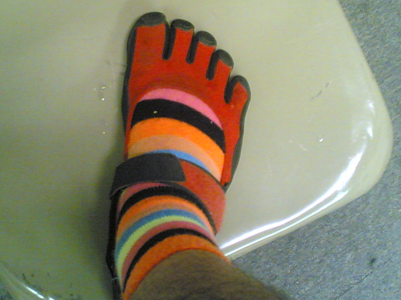 What could possibly be cooler than toe socks or toe shoes? Both together!